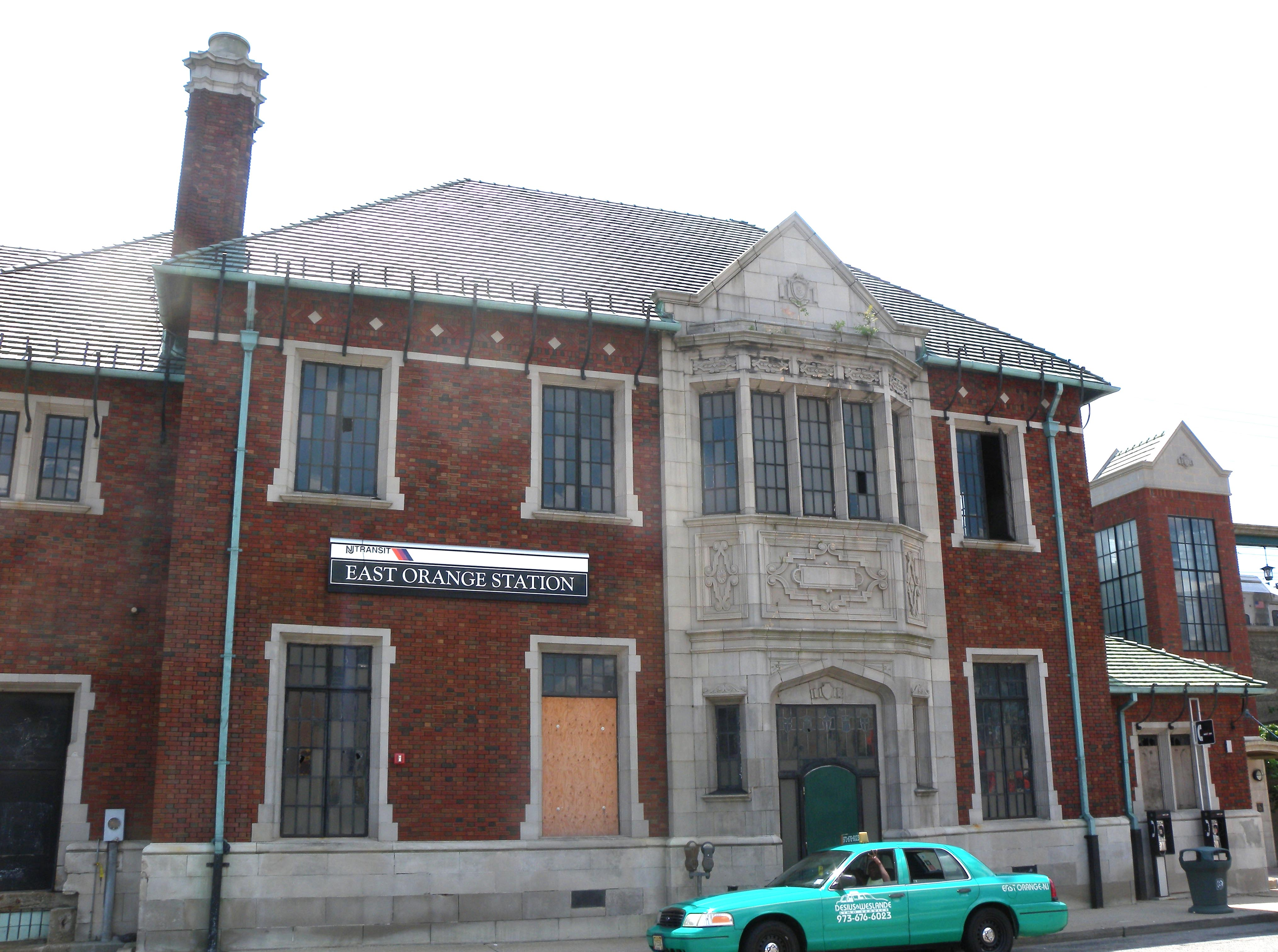 Looking southwest at station house of East Orange (NJT station) on a mostly sunny midday. Elevator to westbound platform is in the separate tower to the right. See also File:East Orange Station under jeh.jpg.